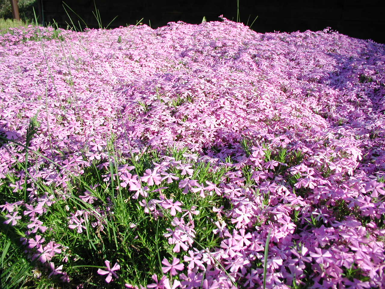 Phlox subulata (Moss phlox) en masse